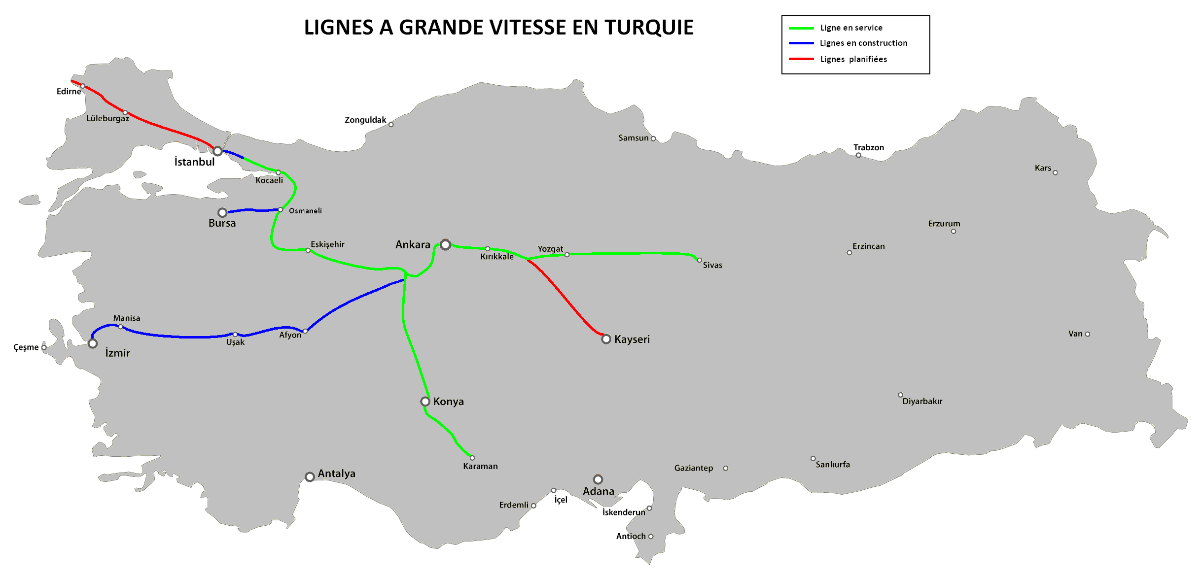 Map of turkish High Speed Rail lines